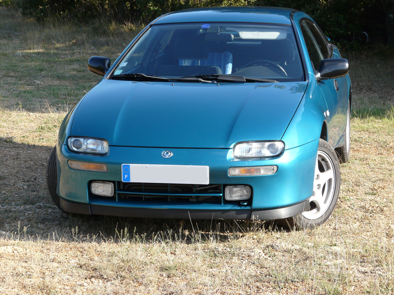 Mazda 323F BA/Lantis V6 GT